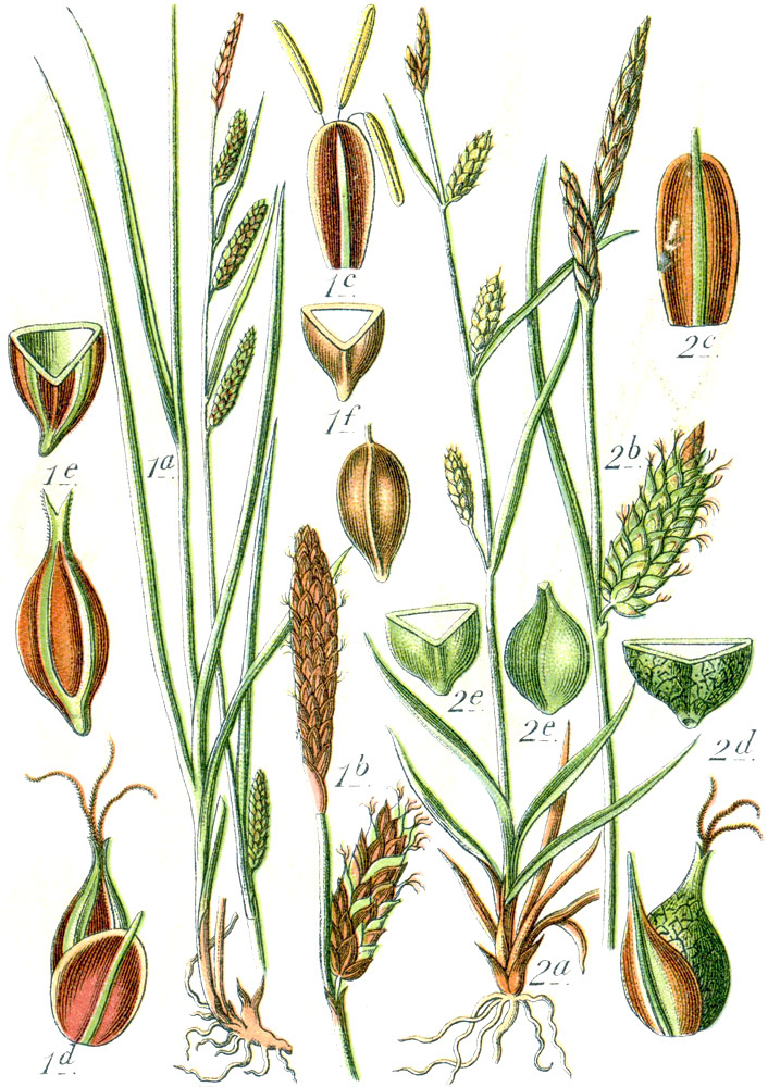 1. Carex binervis Sm. 2. Carex punctata Gaudin Original Caption 1. Leisten-Segge, Carex binervis Sm. 2. Punkt-Segge, Carex punctata Gaudin